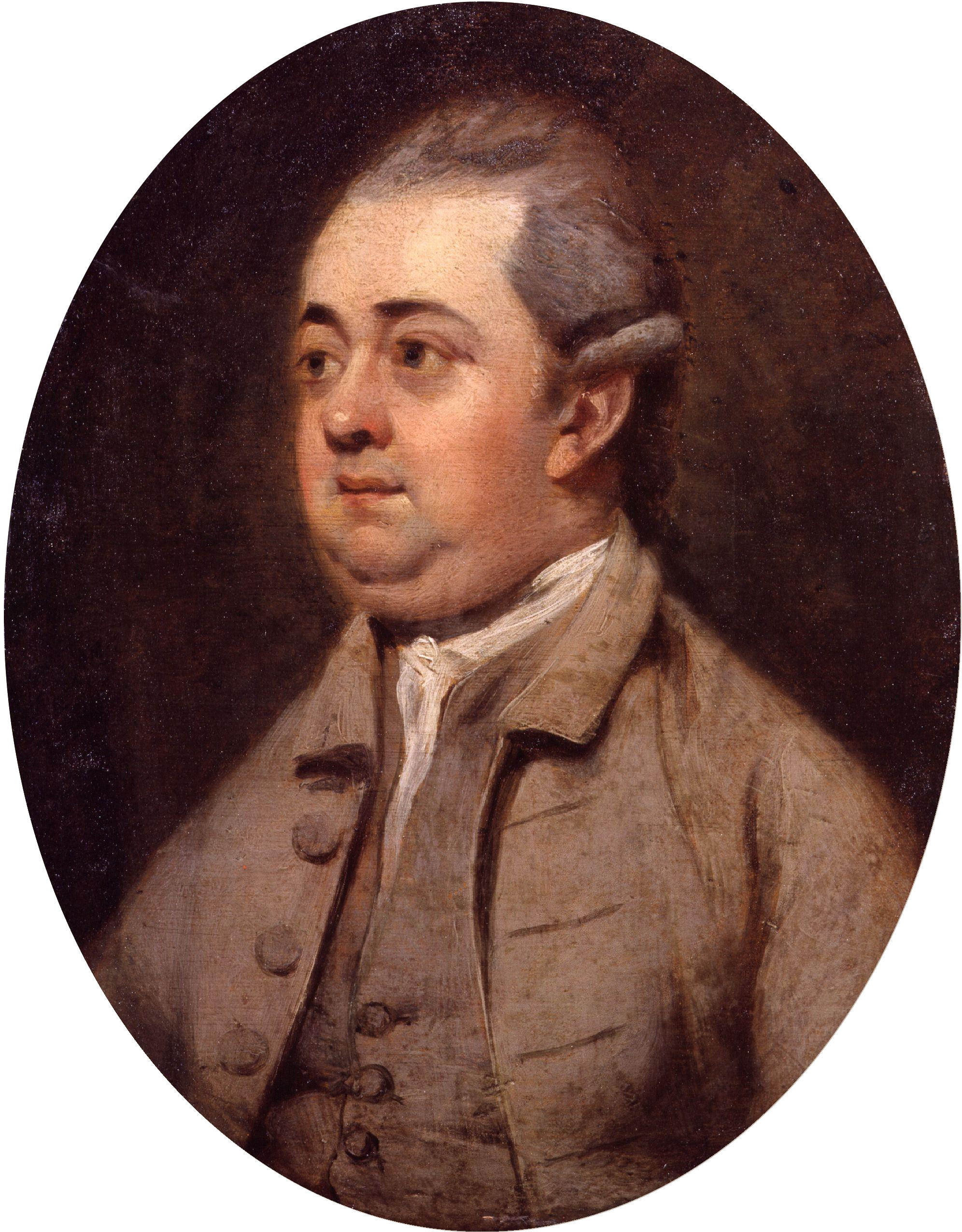 Edward Gibbon, by Henry Walton (died 1813). All images in this batch have been confirmed as author died before 1939 according to the official death date listed by the NPG.